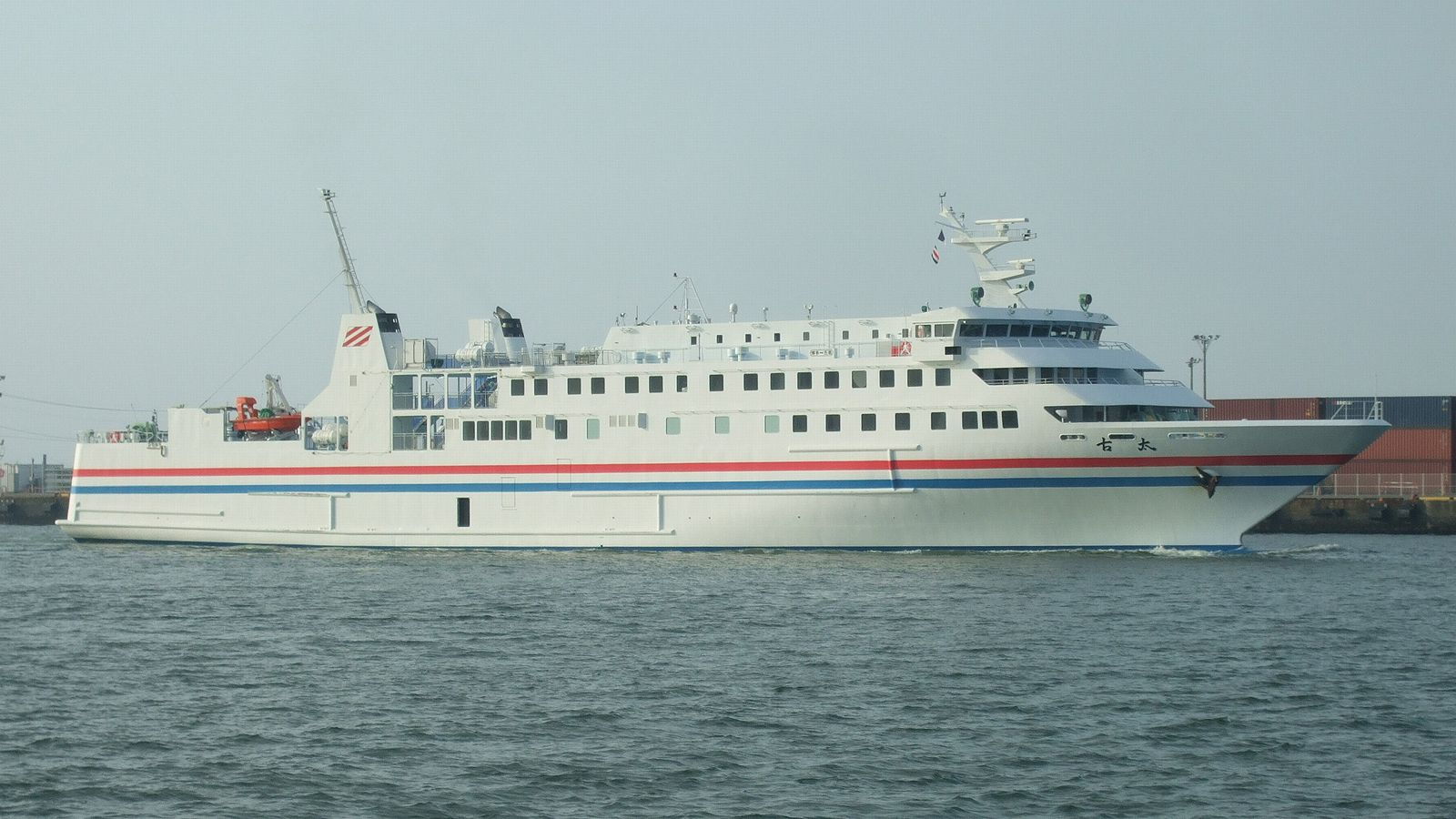 "Taiko"(4th generation), the ship of Nomoshosen, Japan / Location:Hakata Port